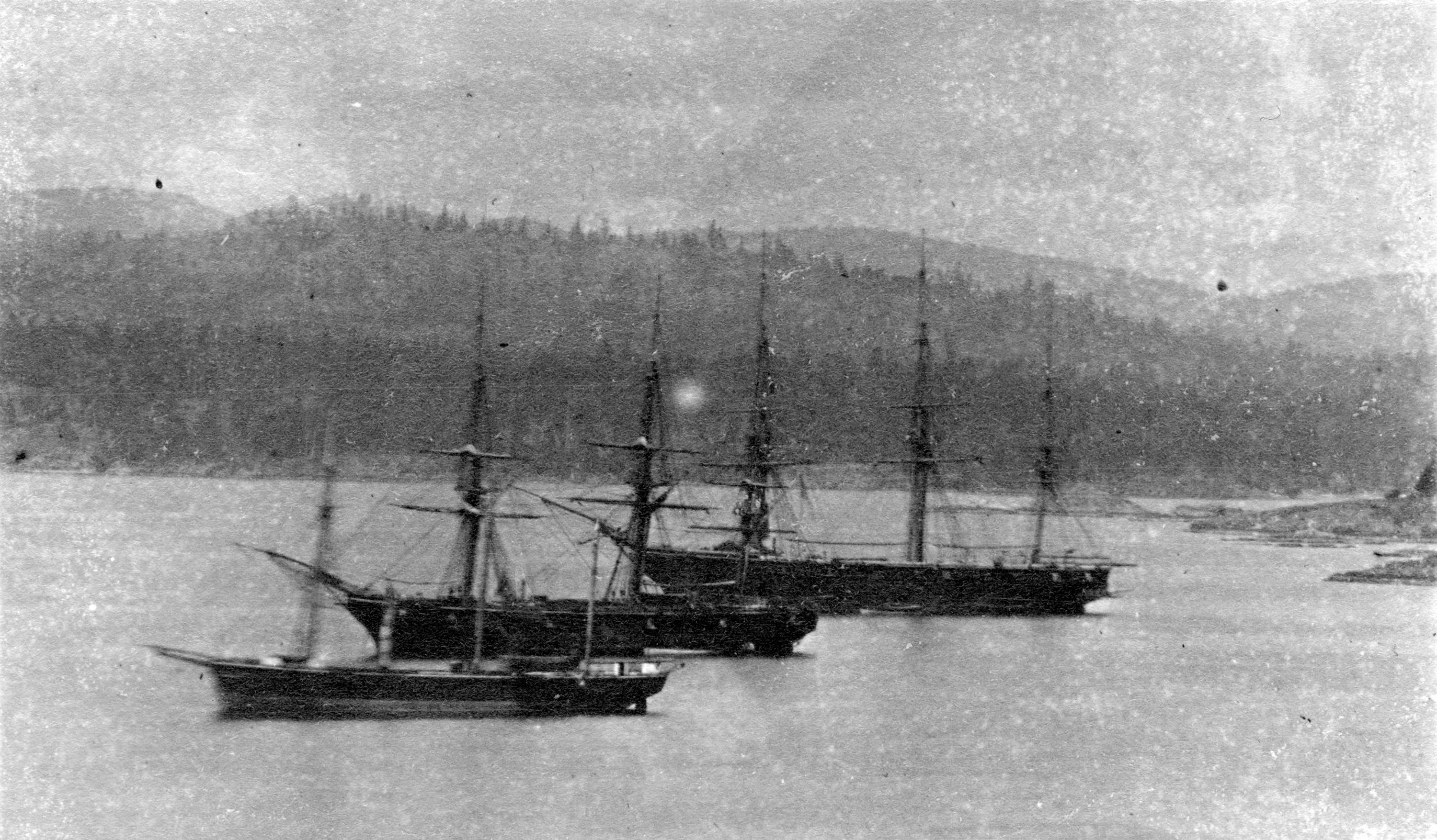 HM ships Grappler Shearwater and Malacca. Believed to be on the Pacific Station, British Columbia, Canada.